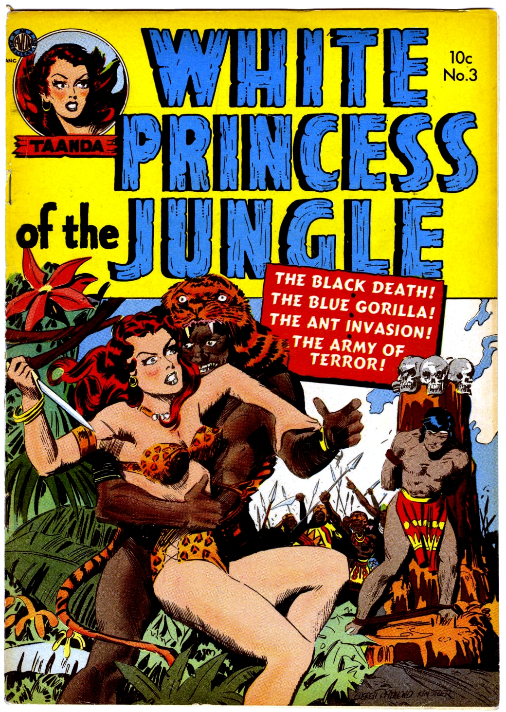 Cover scan of a White Princess #3